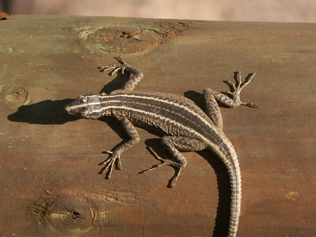 A female Platysaurus broadleyi at Augrabies Falls National Park